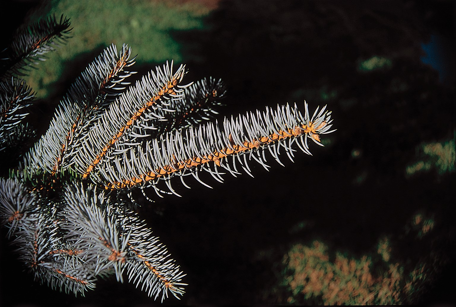 Blue Spruce. Branch.